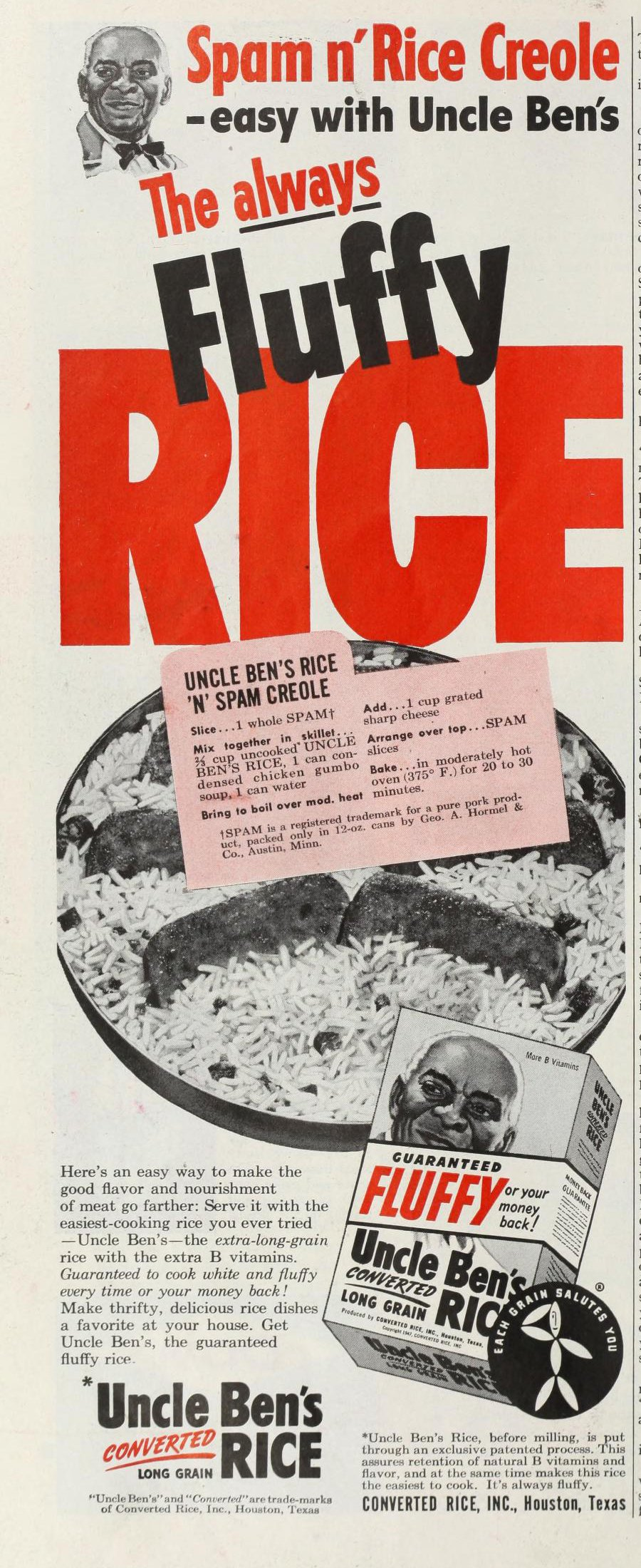 Uncle Ben's ad from the Ladies Home Journal, May 1951